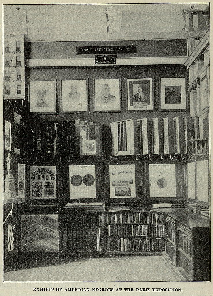 Photograph of Exhibit of the American Negroes at the Paris exposition, 1900. Taken from The American monthly review of reviews, vol. XXII, no. 130 (1900 November), p. 576. Library of Congress record